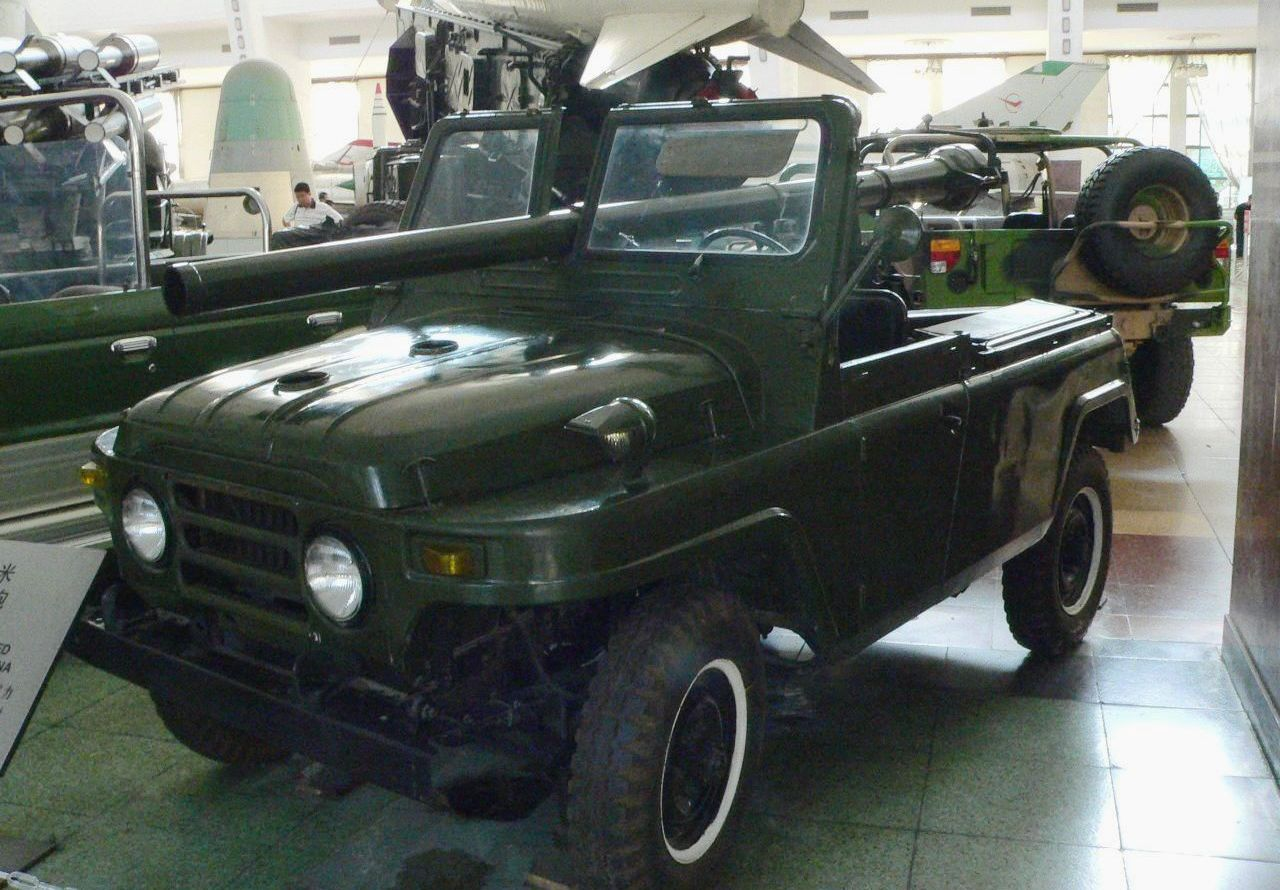 A Type 75 105mm recoilless gun mounted on a Beijing BJ2020S (BJ212) 4X4 lightweight vehicle.